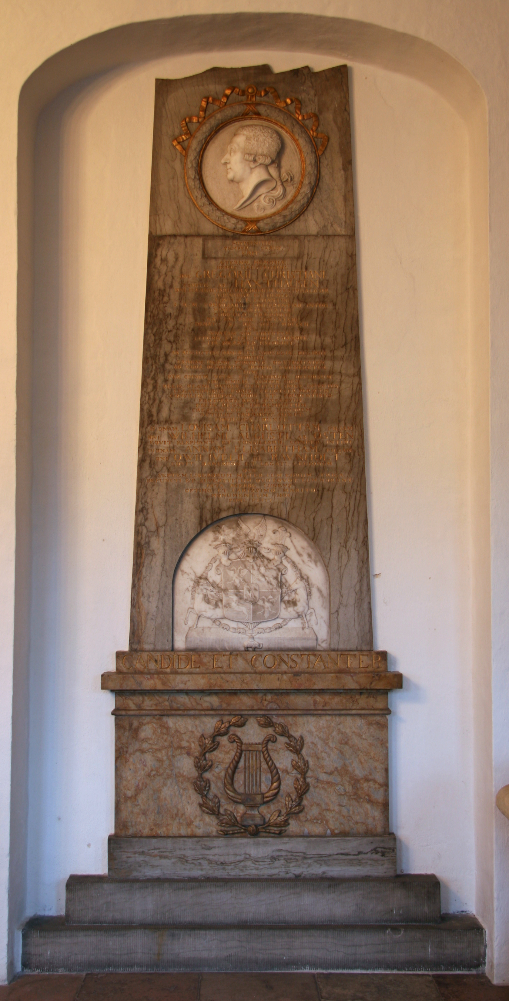 Holmens Kirke, Copenhagen, Denmark. Gregorius Christian greve af Haxthausens epitafium i store kapel. 1802.